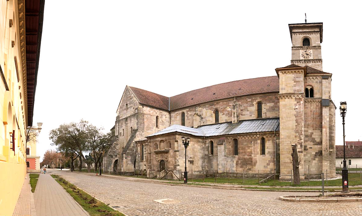 Exterior of Alba Iulia Roman Catholic Cathedral, Alba Iulia, Romania